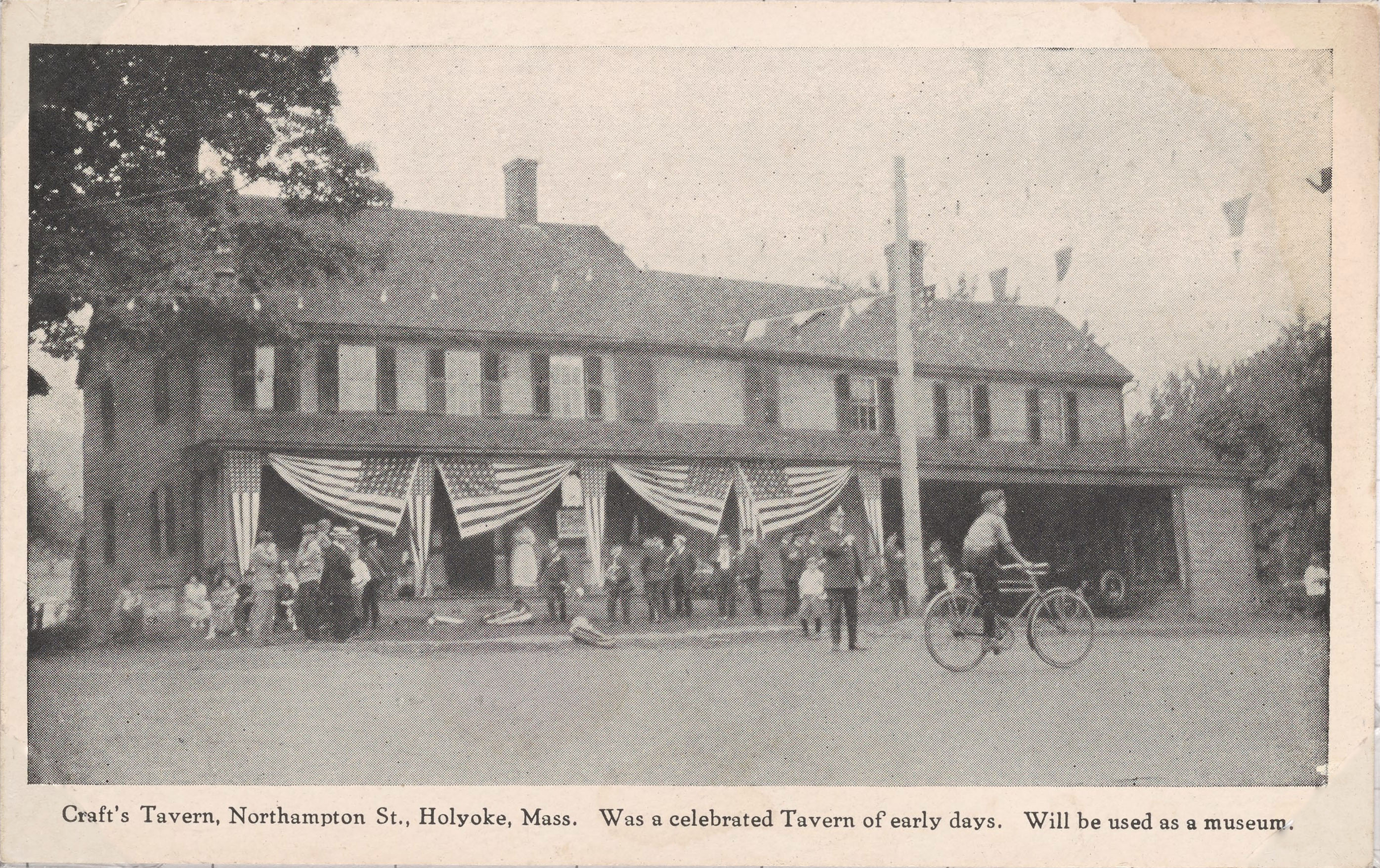 The former Crafts' or Millers Tavern, during some form of celebration, possibly July 4, in Holyoke, Massachusetts. Built in 1785 it served as a tavern and post office for many decades and was described by the Daughters of the American Revolution, who later maintained it in the 20th century, as the "seat of all social activity in Old Holyoke". Until its demolition in 1950 to build the Lynch Middle School it was contributed to the city as part of what was planned to be Anniversary Hill Park with a museum.